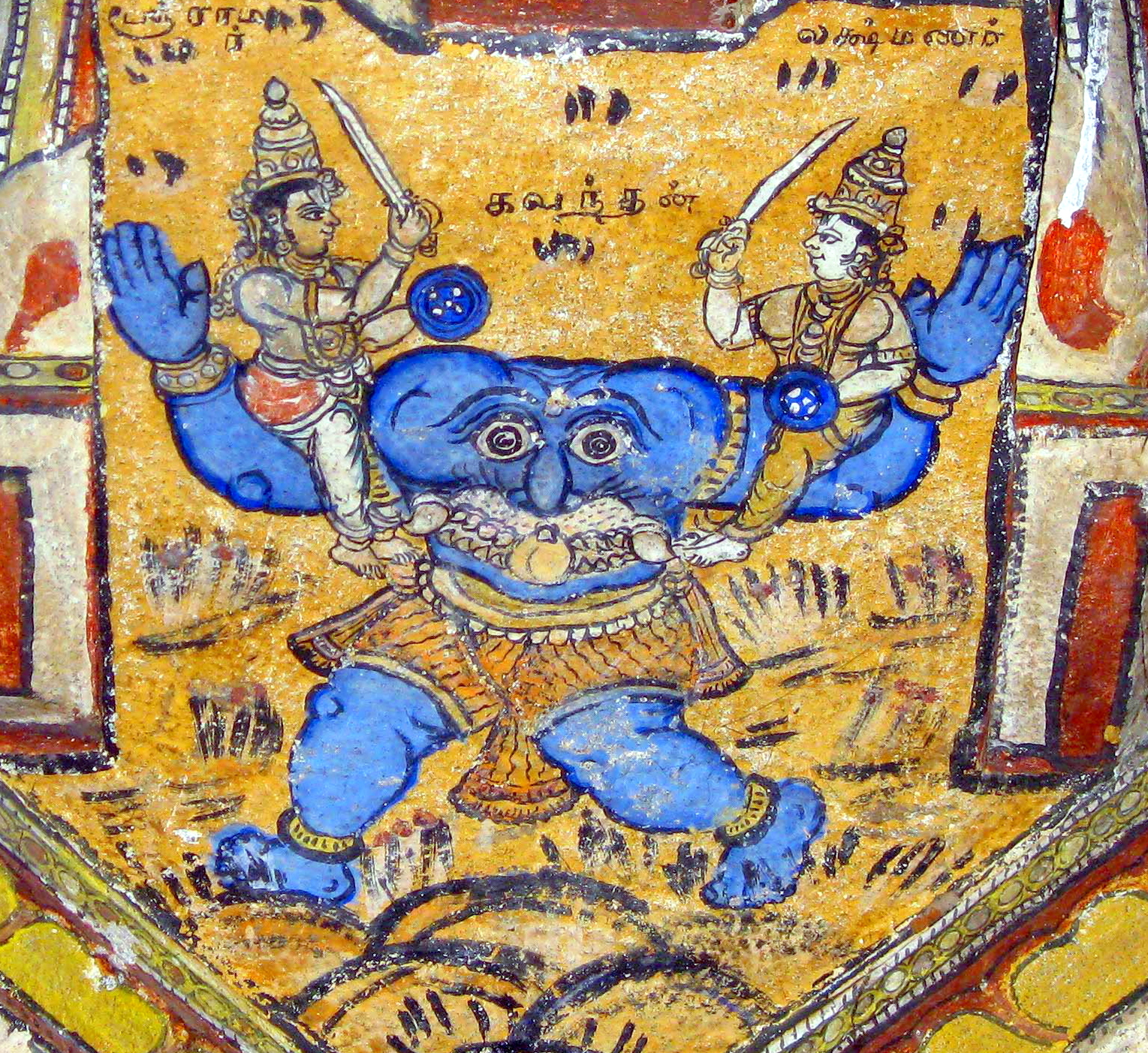 The spectacular composition of paintings in the beams and ceilings of the Rama temple in Ayodhyapattinam Kabandan (meaning headless torso) was cursed by a sage who was disturbed by him while doing a research in the medicinal use of plants and herbs. The sage cursed him to continue to have the asura roopa which he held only as a disguise. The otherwise beautiful Kabandan was very disturbed by this curse and asks for release from the curse. The sage says, 'the day Rama cuts your hands and does the samskara, will you attain your original form.'